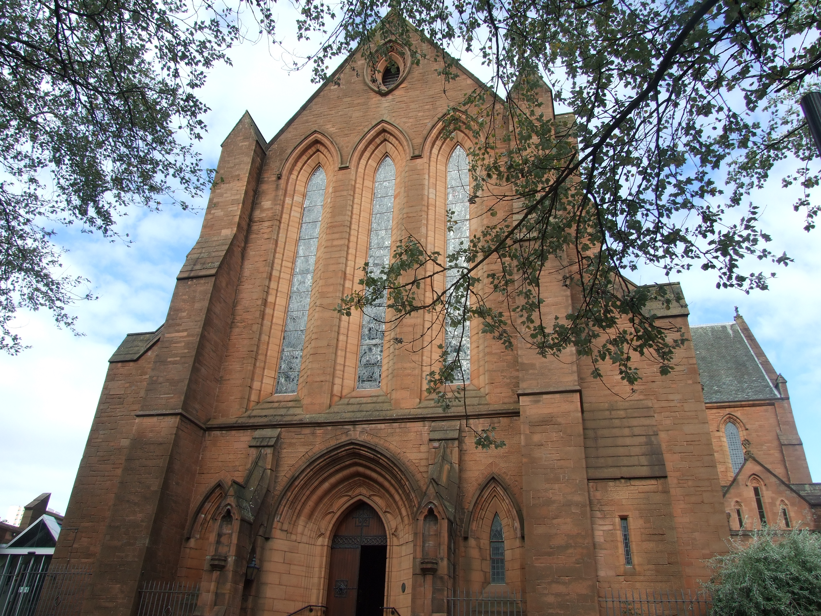 Barony Hall, University of Strathclyde on Doors Open Day 2013